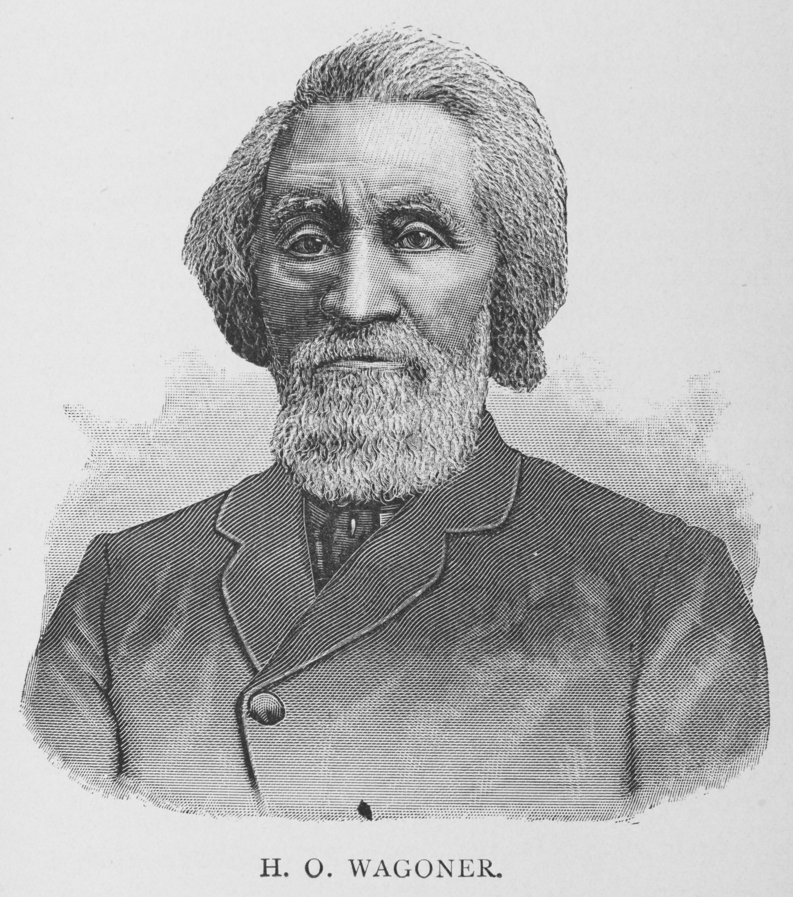 Wagoner in 1887